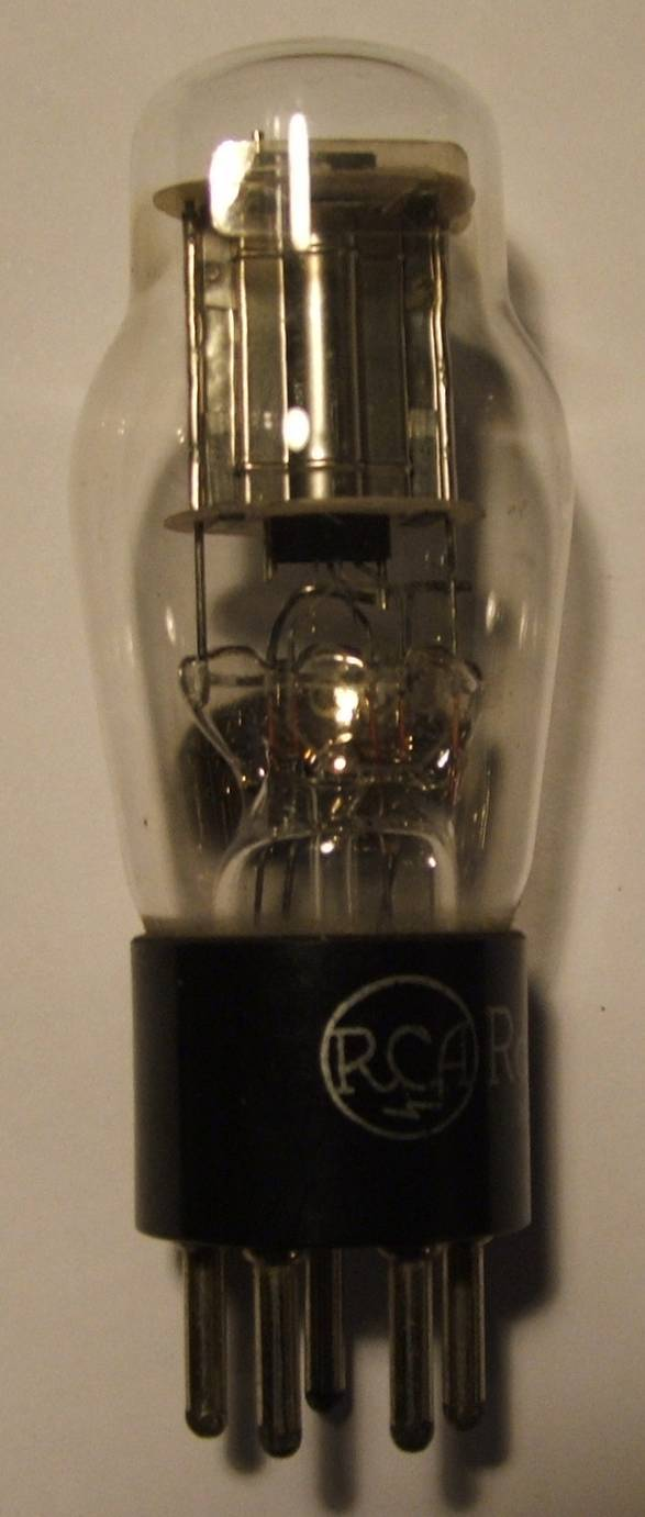 R.C.A. Type 885 Triode Thyratron, 64.9KB. Created: 7th April 2009. Author: Andrew Kevin Pullen. Source: My own work.